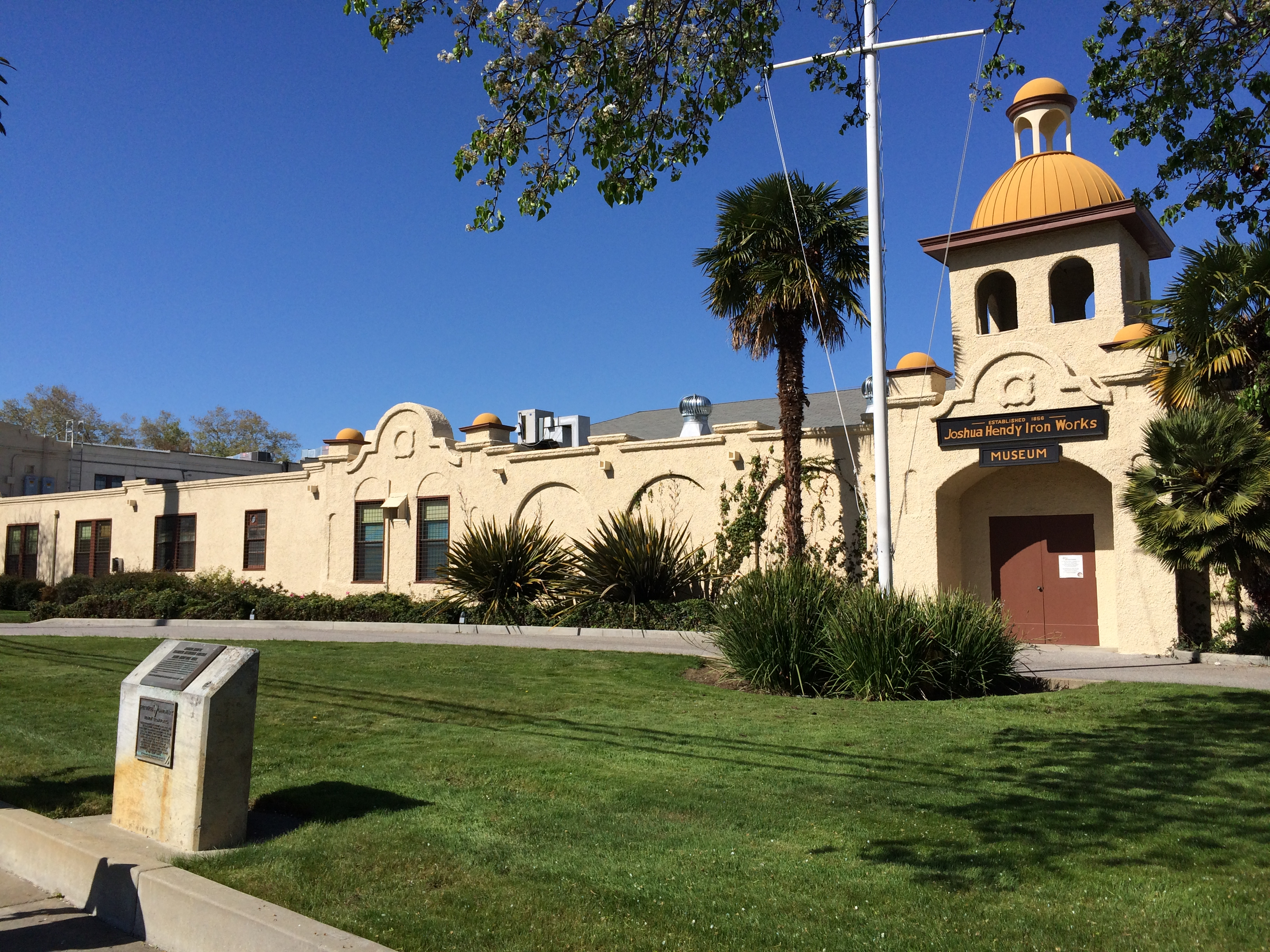 Exterior of the Joshua Hendy Iron Works museum in Sunnyvale, California.